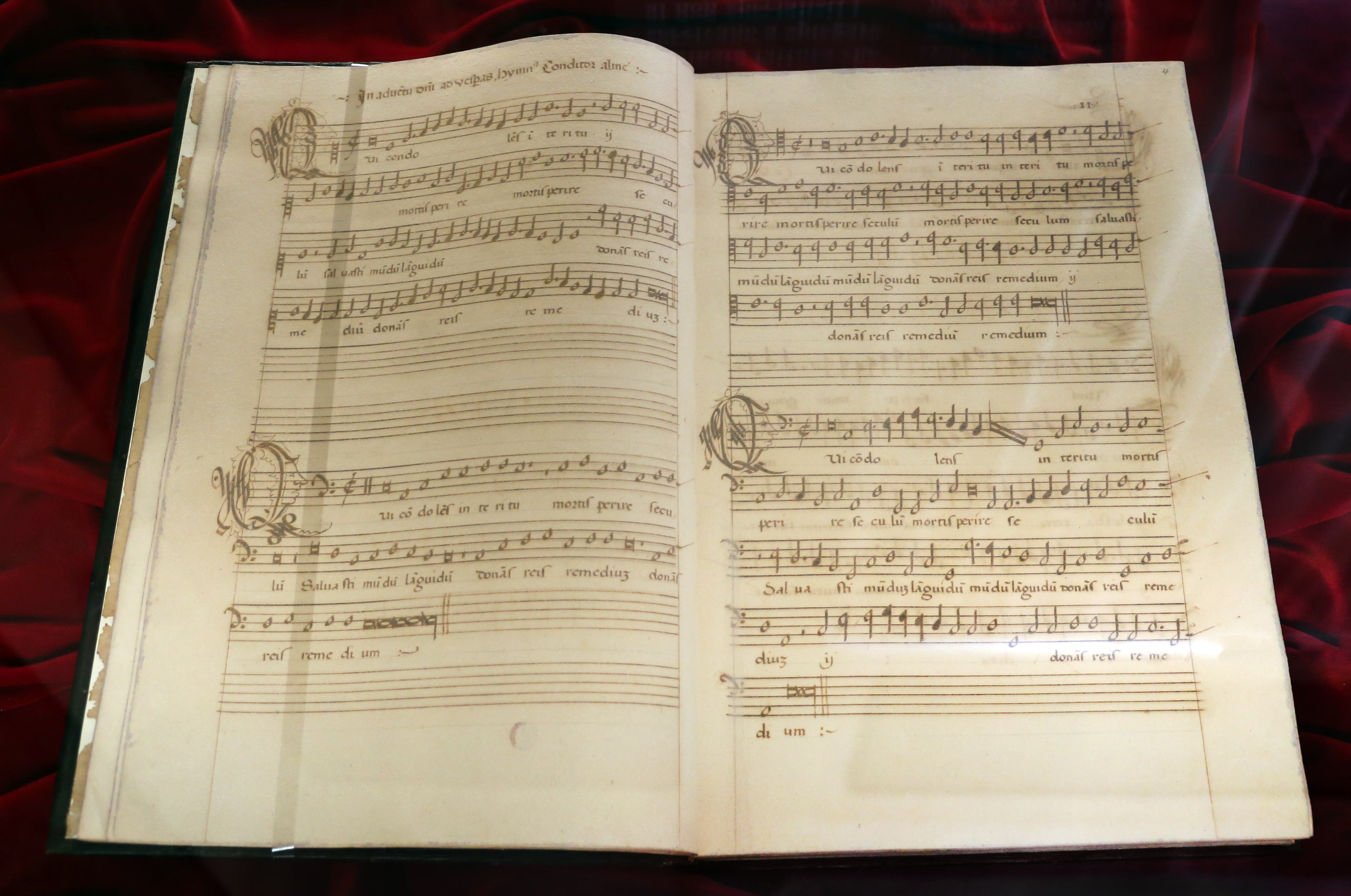 Biblioteca Medicea Laurenziana manuscripts